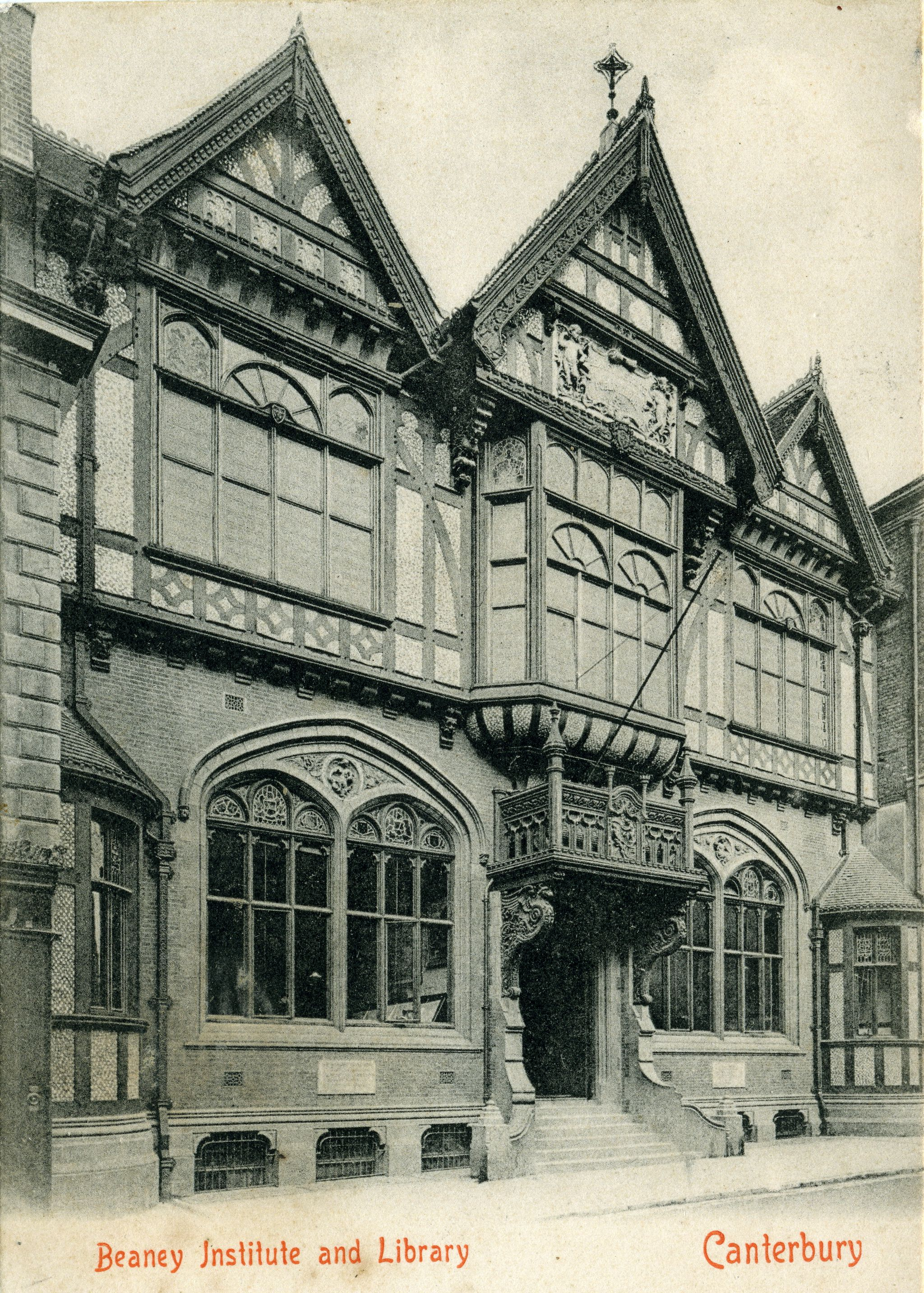 Royal Museum and Free Library in Canterbury, Kent, England. Known as the Beaney Institute. Date of photo deduced as 1899-1914 because: (1) The Beaney was built in 1899; (2) the halfpenny inland postage for postcards which is printed on the back became obsolete in 1918; (3) the postcard was printed in Dresden with British postage information, which makes it unlikely to have been printed after 1914. However the building looks very new and pristine, so it's possibly close to 1899.